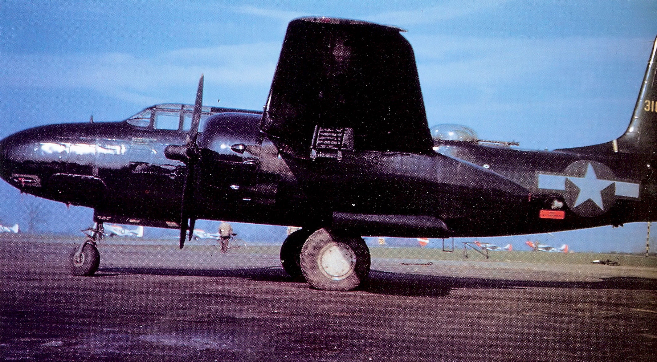 422d Night Fighter Squadron Douglas A-20 Havoc